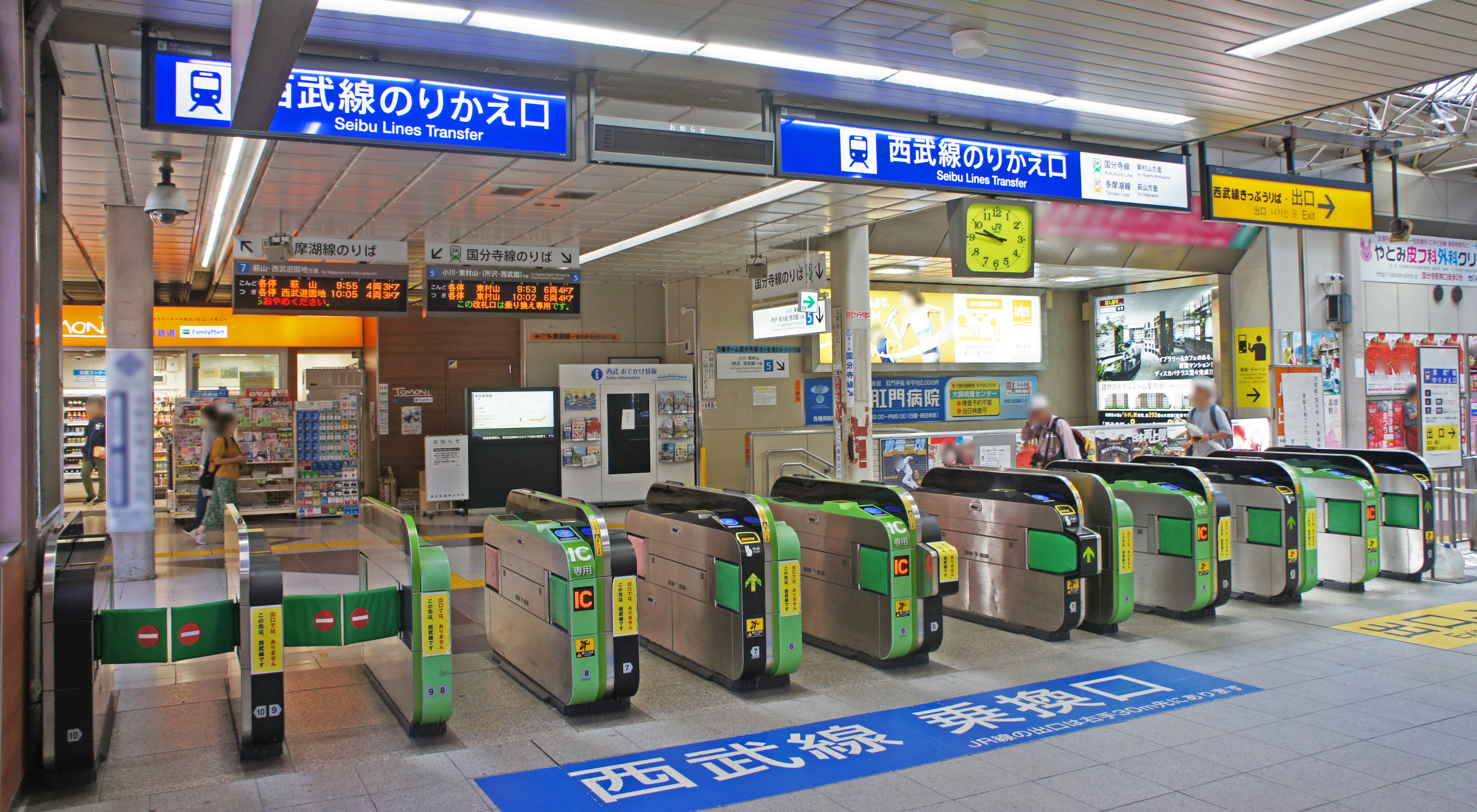 JR Line・Seibu Line Transfer Gates of Kokubunji Station